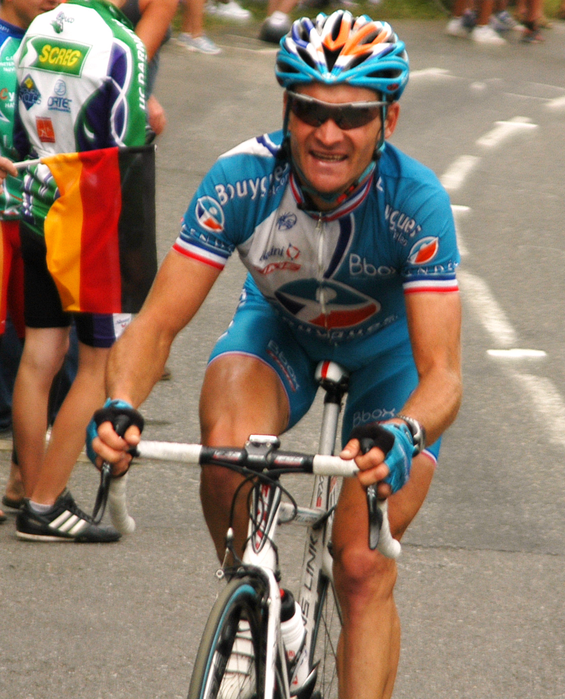 Thomas Voeckler (FRA) at stage 17 of the 2009 Tour de France on the Col de la Colombière.